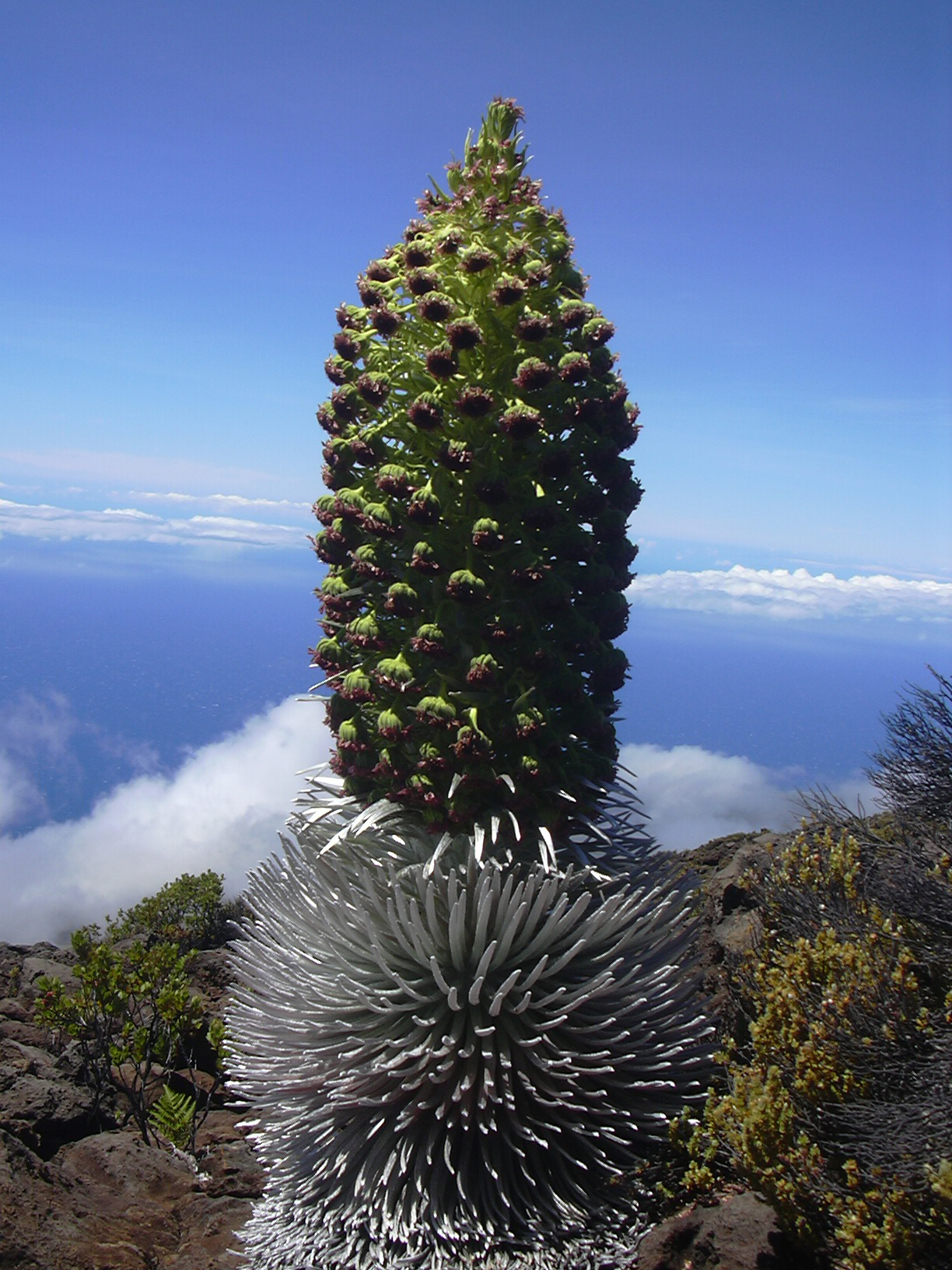 Argyroxiphium sandwicense subsp. macrocephalum (flowering). Location: Maui, South rim Haleakala National Park